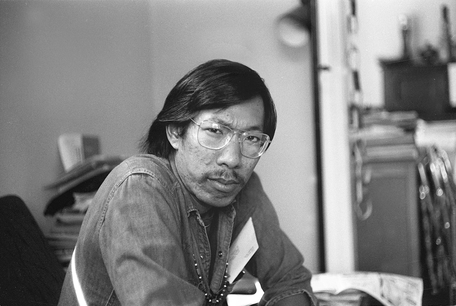 American playwright Frank Chin who wrote "The Year of the Dragon" is shown in San Francisco, California in 1975. Photo by Nancy Wong.